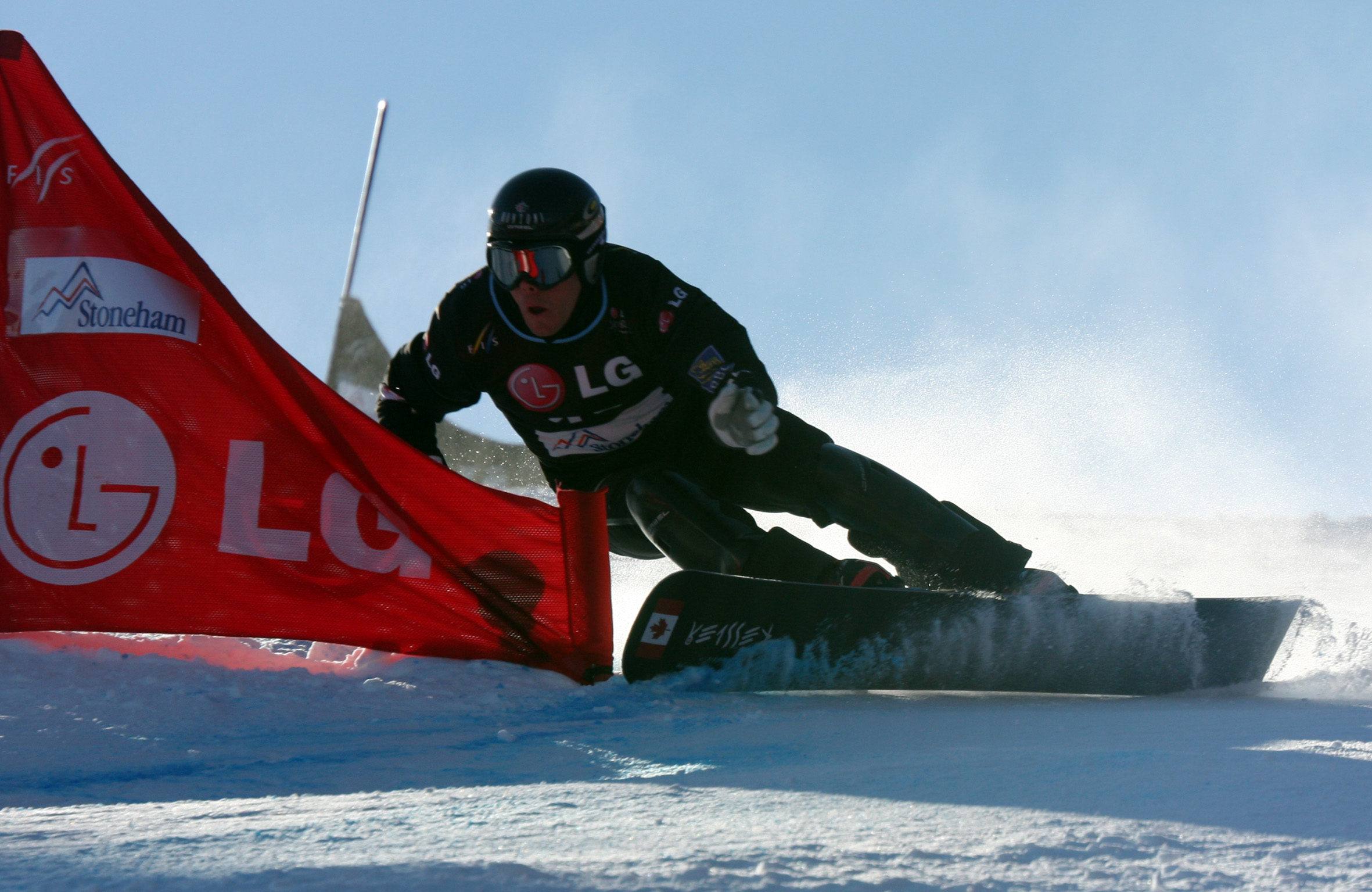 Stoneham_PGS_Jasey_Jay_Anderson_CAN_04